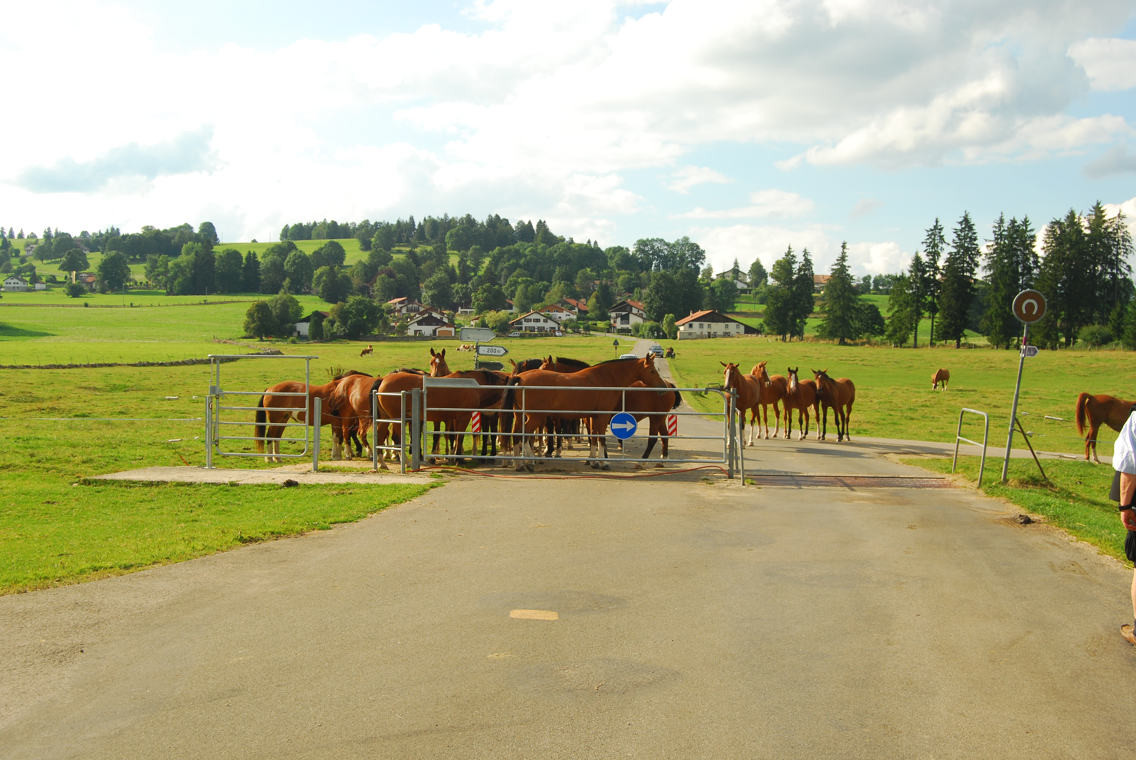 Le Bémont, canton of Jura, Switzerland